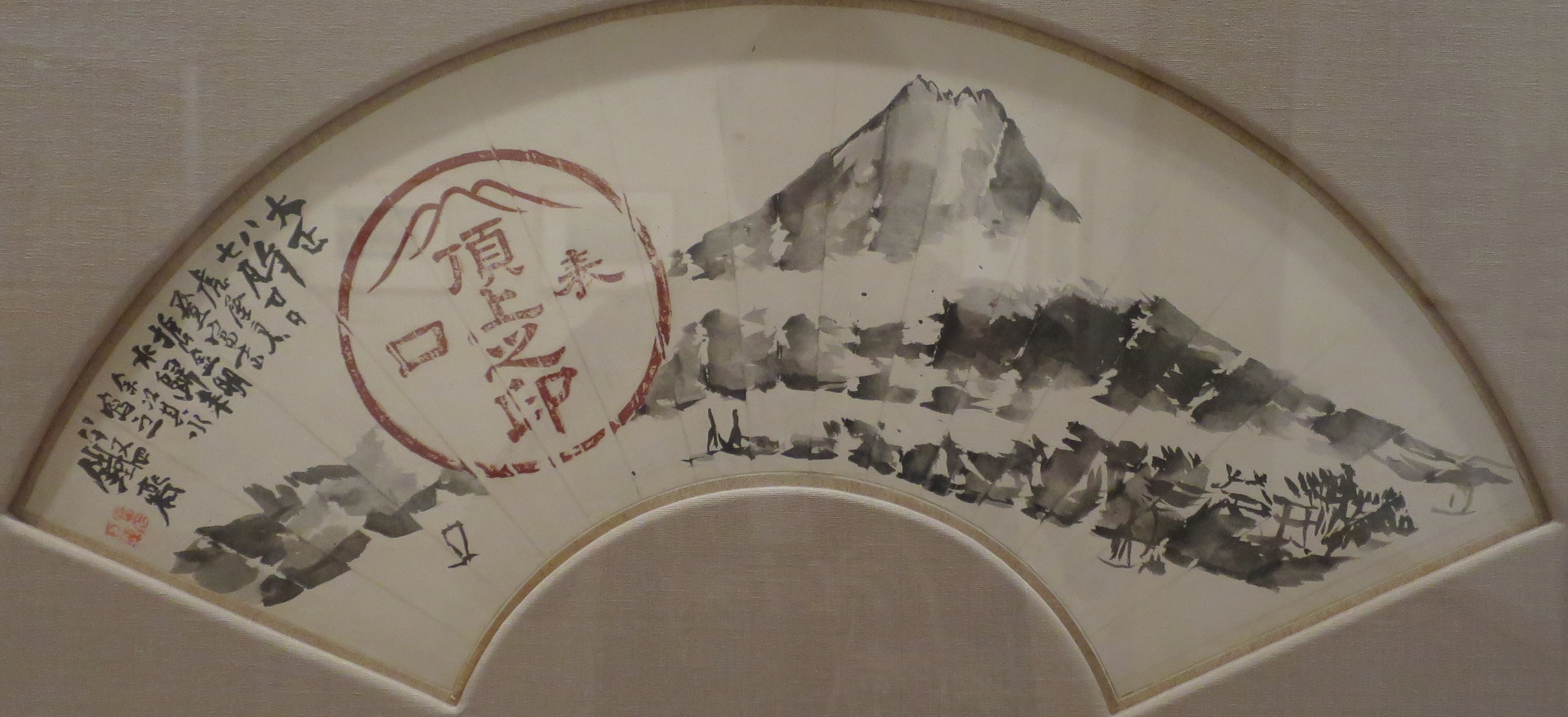 The Summit of Mount Fuji by Tomioka Tessai, 1919, ink on paper, Honolulu Museum of Art accession 4447.1